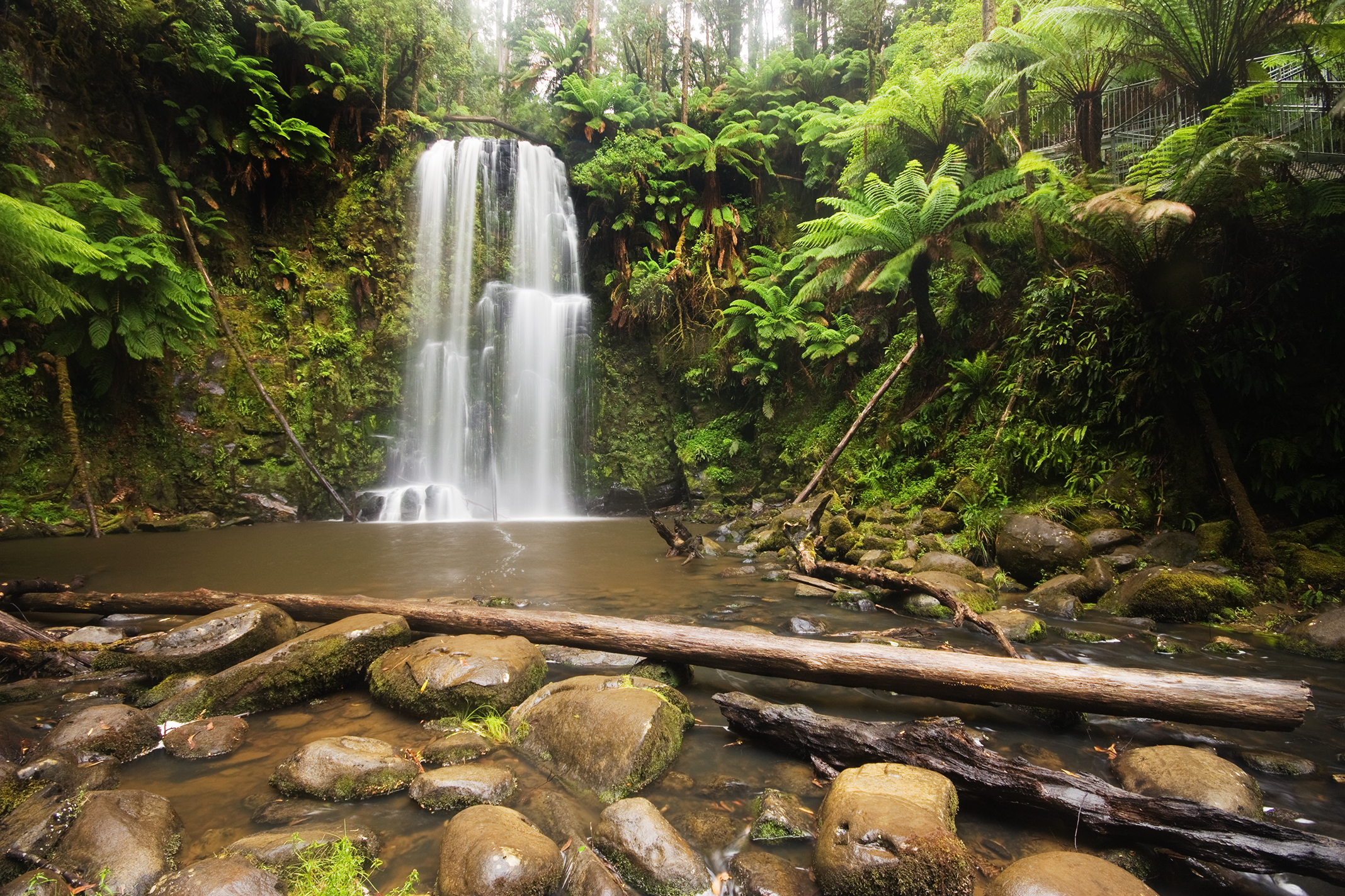 Beauchamp Falls, Otway National Park, Victoria, Australia